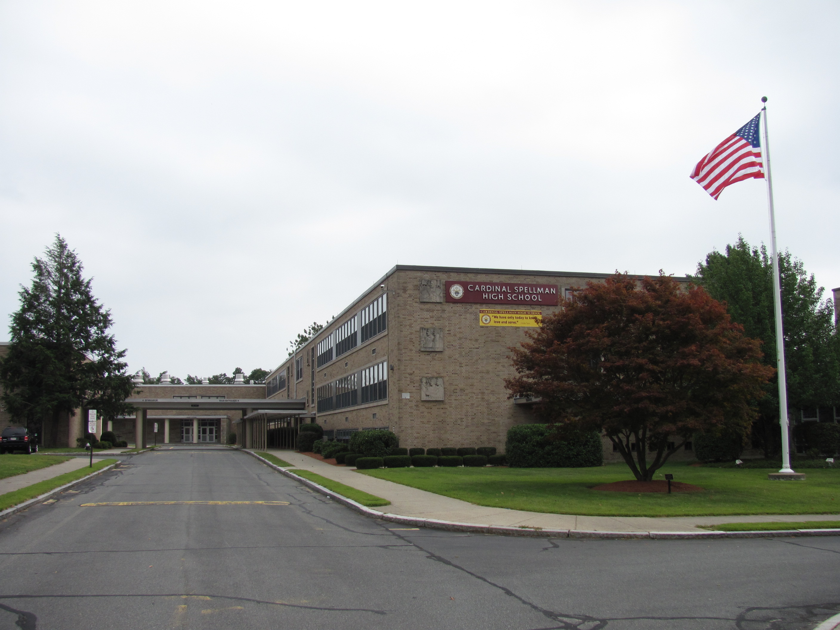 Cardinal Spellman High School, Brockton Massachusetts